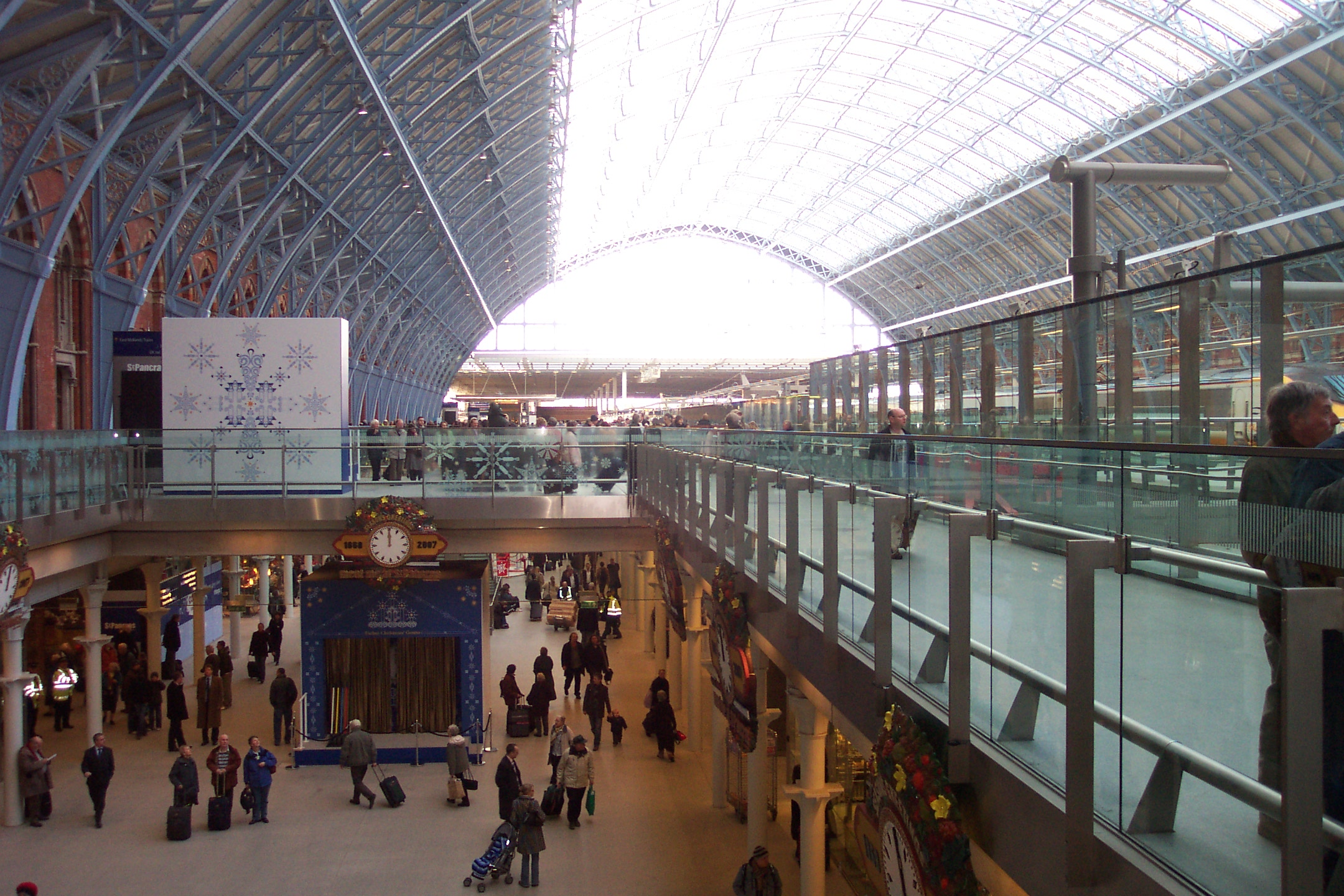 The Arcade at St Pancras railway station, looking north under Barlow's magnificent roof. For more information see the Wikipedia article St Pancras railway station.